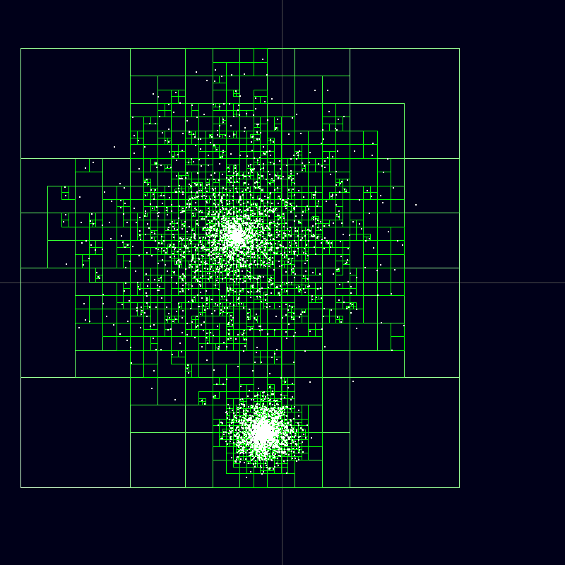 Complete barnes hut tree of a distribution of 5000 particles resembling two galaxies. Each particle is located in its own node.